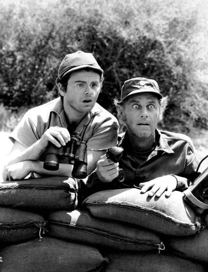 Photo of Gary Burghoff and McLean Stevenson from the television program M*A*S*H.